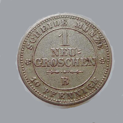 Neugroschen Saxony 1863 obverse. Coin from my collection